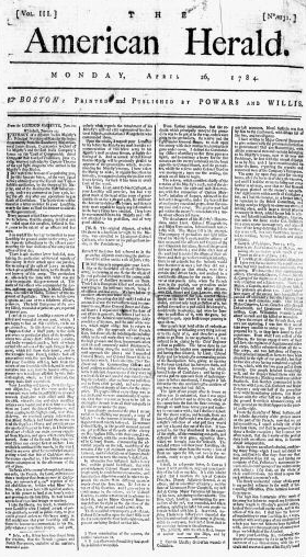 From: the American Herald newspaper (Boston, Massachusetts)